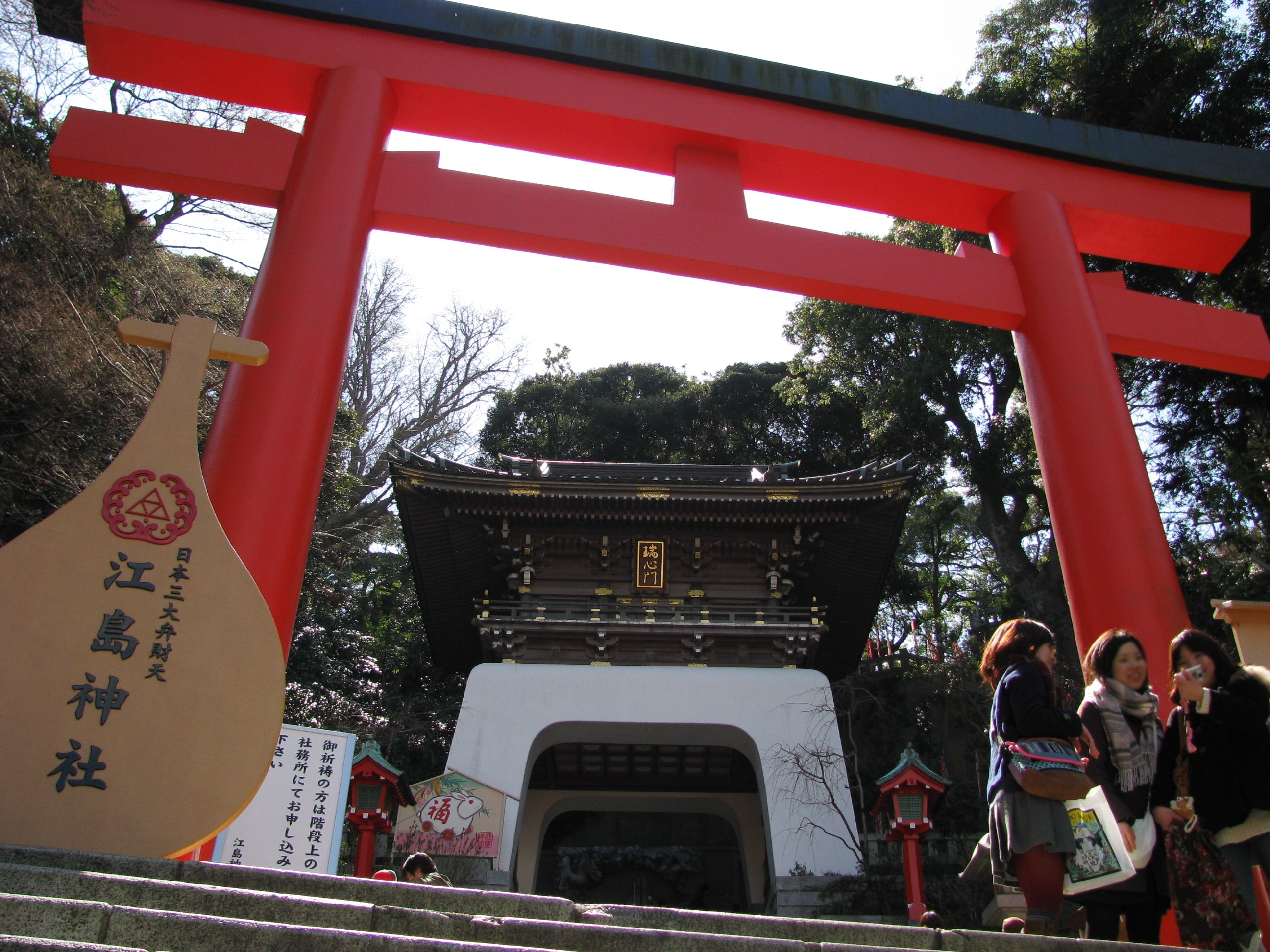 The Zuisin-mon of Enoshima Shrine. This place is Enoshima in Fujisawa, Kanagawa Prefecture, Japan.